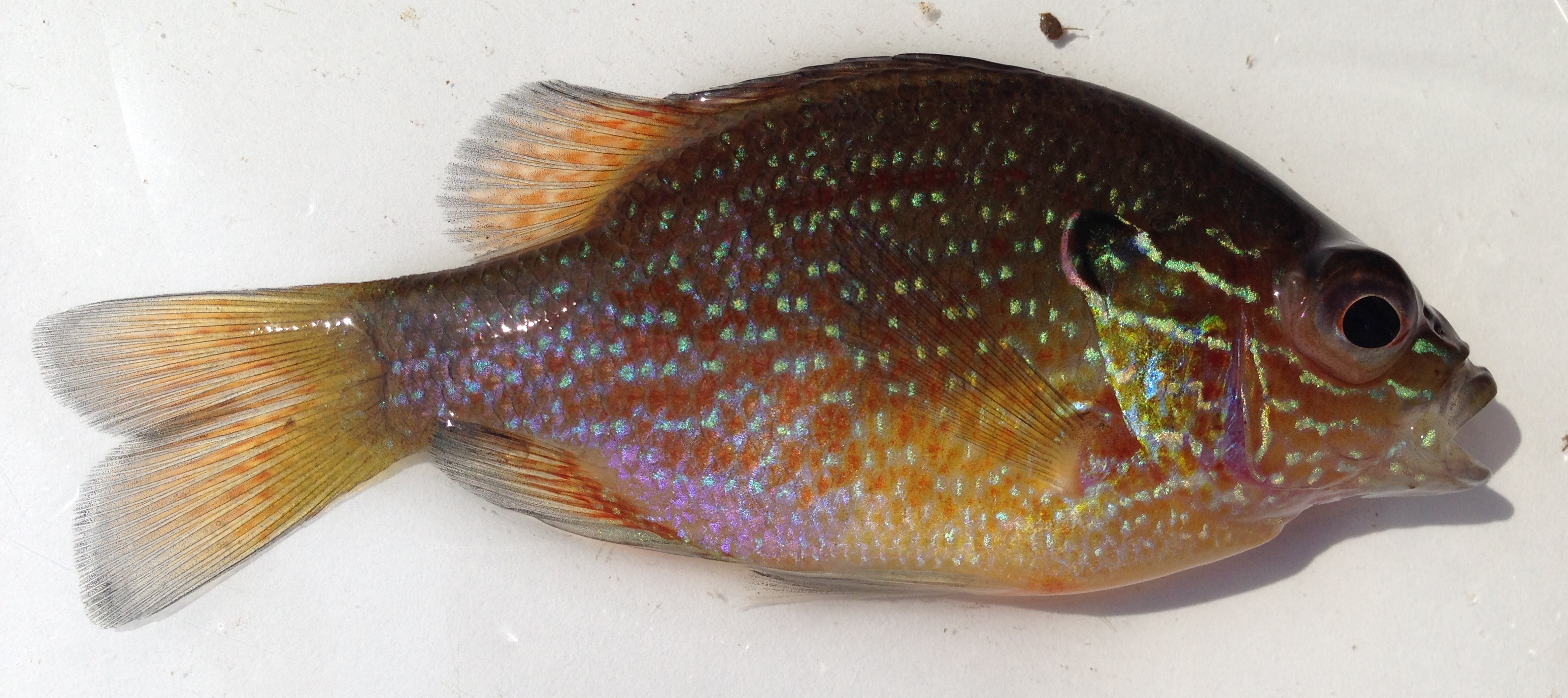 A dollar sunfish (Lepomis marginatus) at the University of Mississippi Field Station.